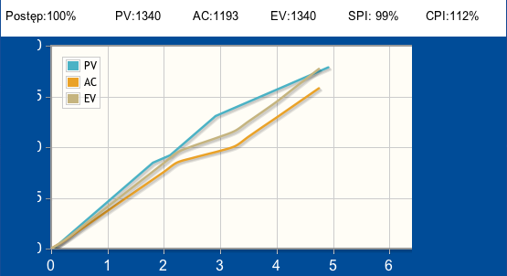 Chart presenting PV, EV, AC indicators of EVM method.